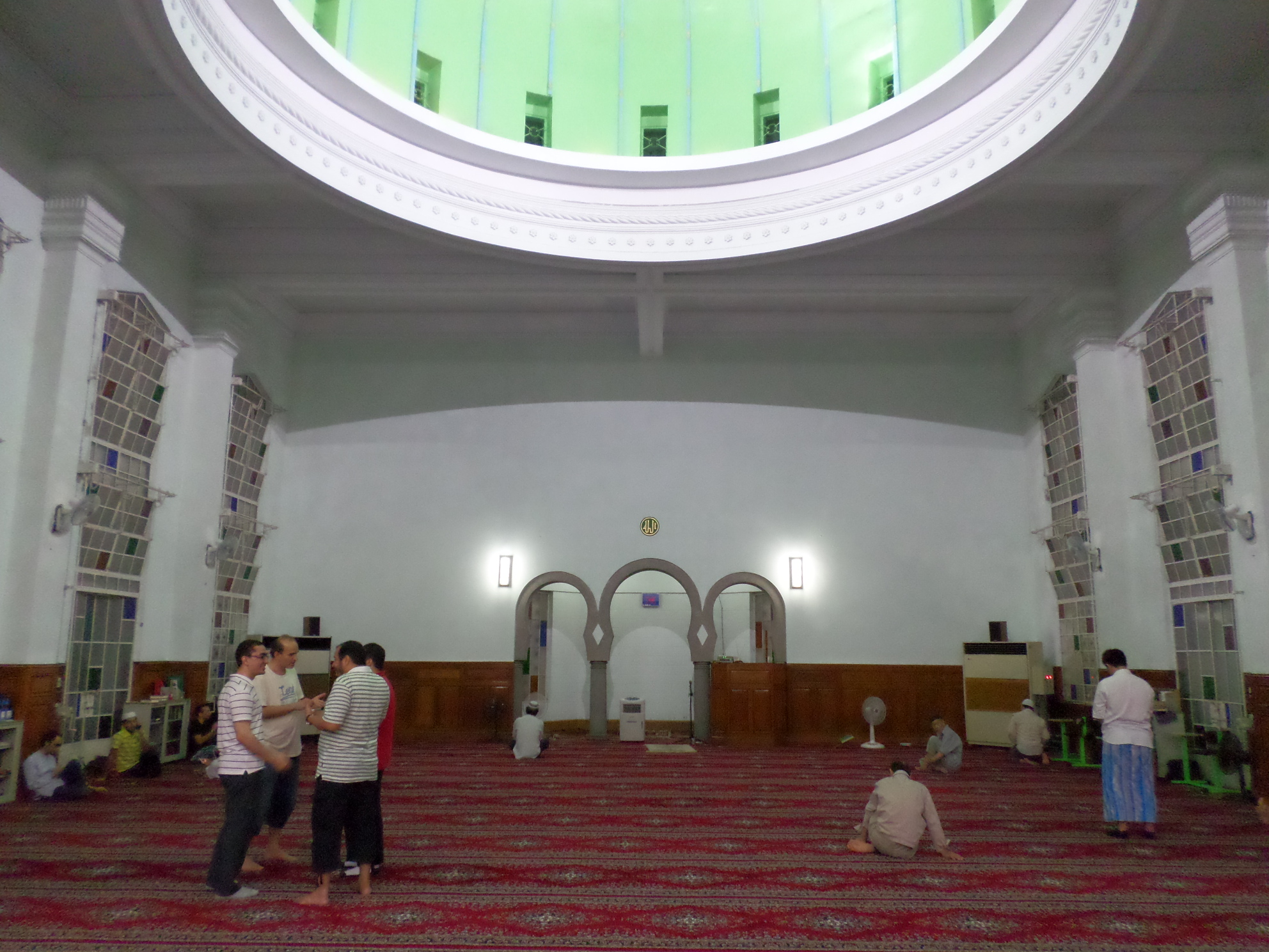 Taipei Grand Mosque Prayer Hall, Da'an District, Taipei City, Taiwan